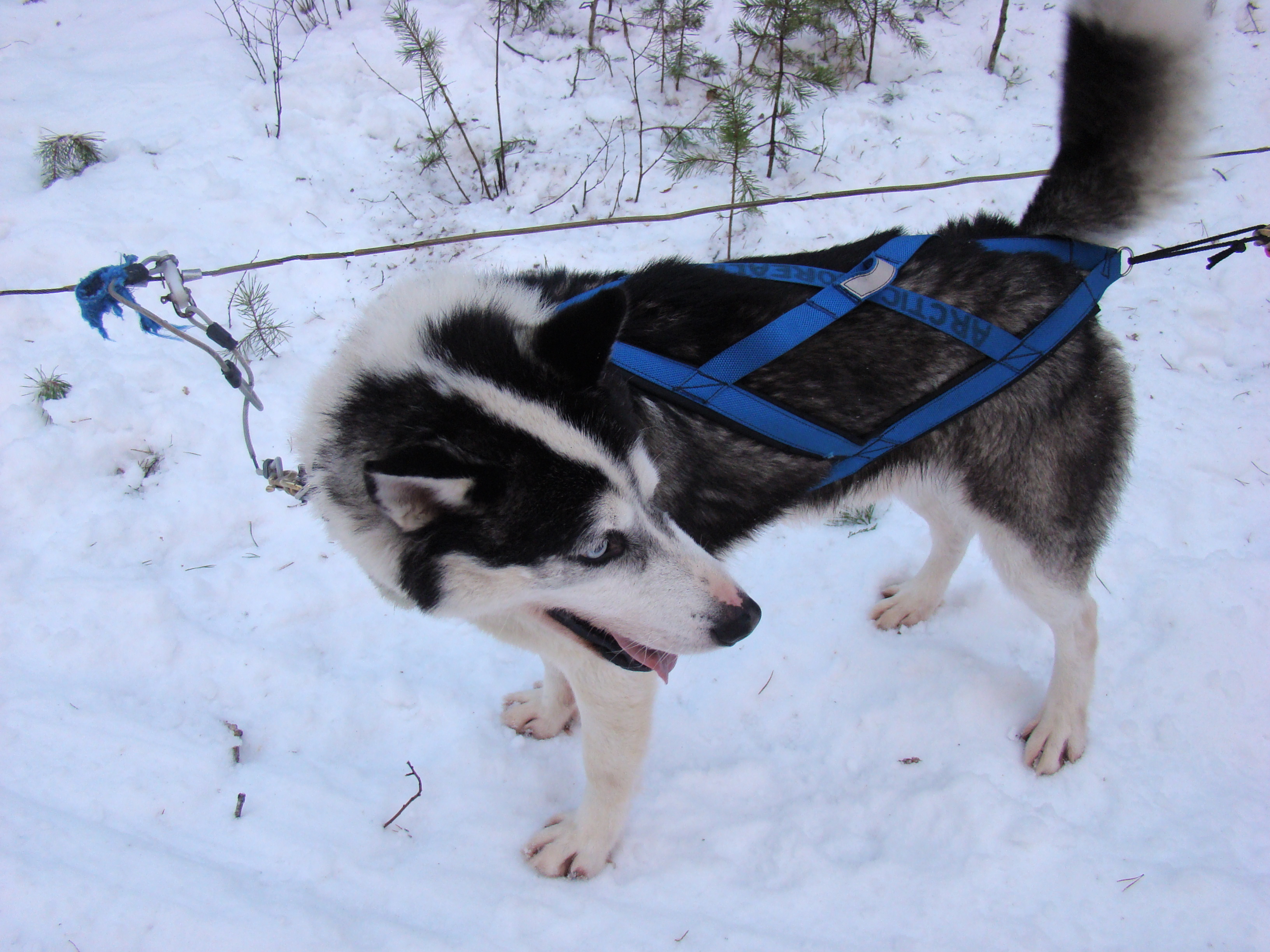 A husky whose job is to pull a sled.